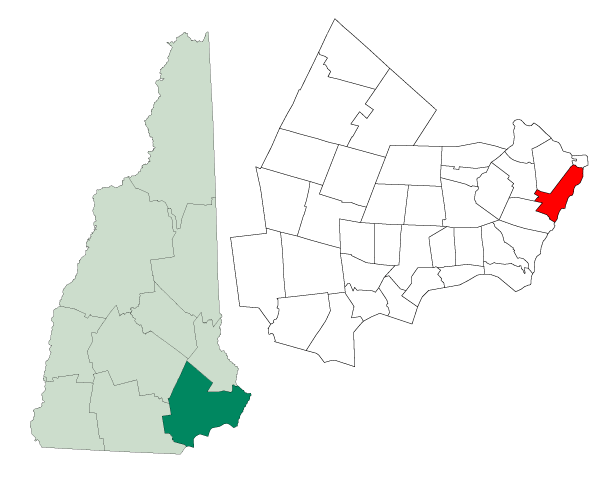 Map of a municipality in Rockingham County, New Hampshire